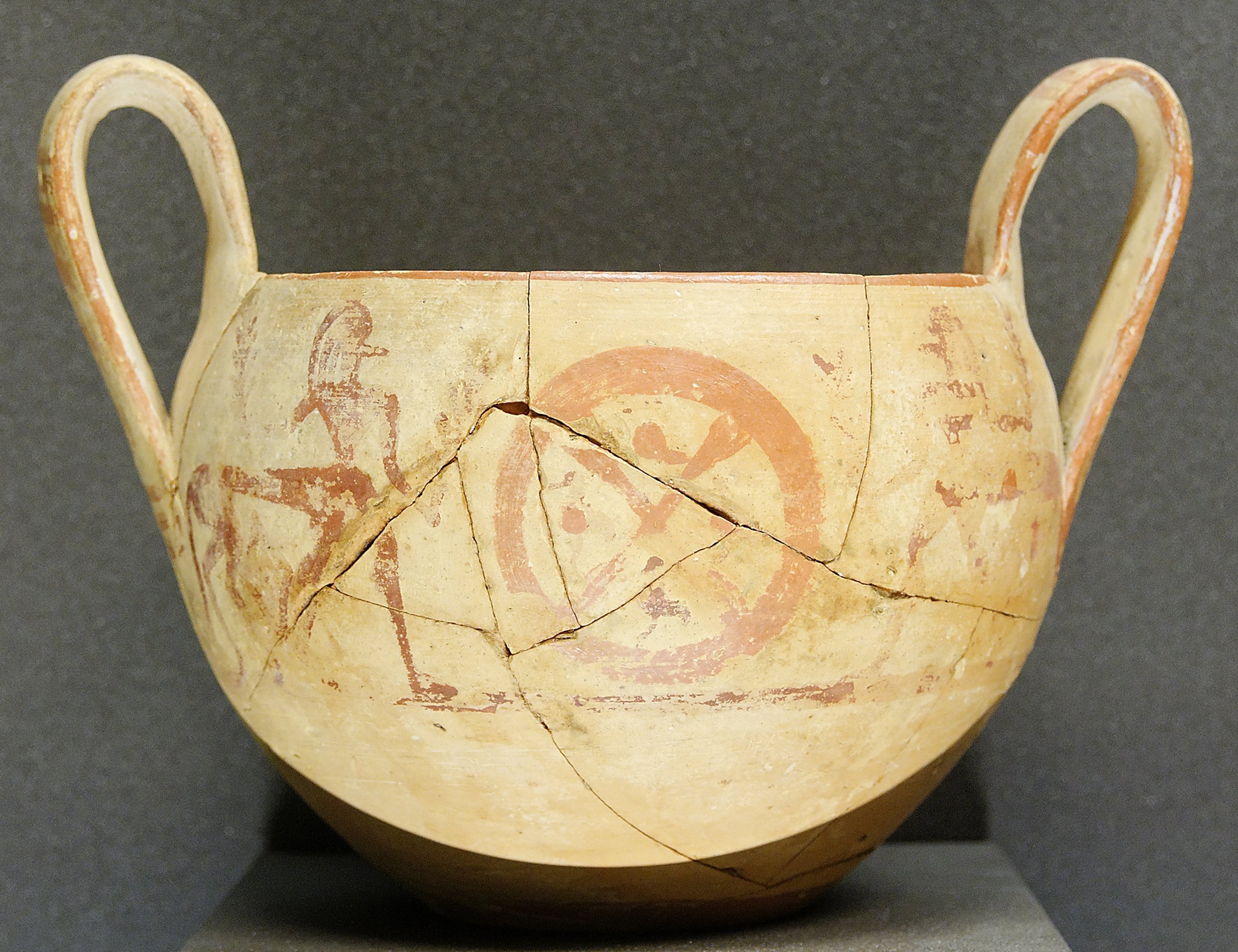 Centaurs holding branches, Attic kantharos, ca. 715BC–700BC (Late Geometric). From Boeotia.